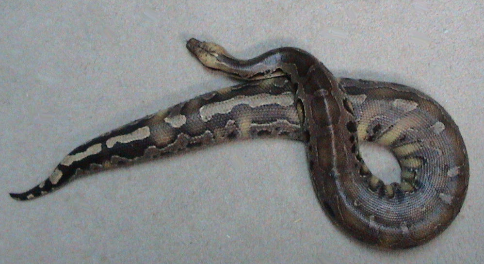 Photographer: User:Dawson Species: Borneo Short-tail python (P. breitensteini)